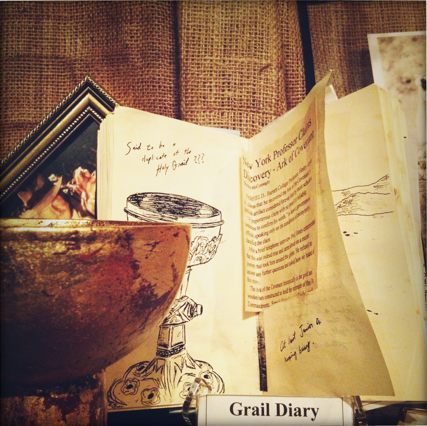 Diary from the film Indiana Jones and the Last Crusade displayed at The Hollywood Museum, 1660 N. Highland Ave (at Hollywood Blvd), Hollywood, California, USA.